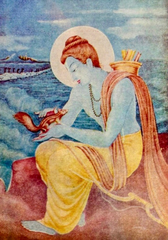 This is a derivative work on wikimedia commons image: Rama with a squirell.jpeg